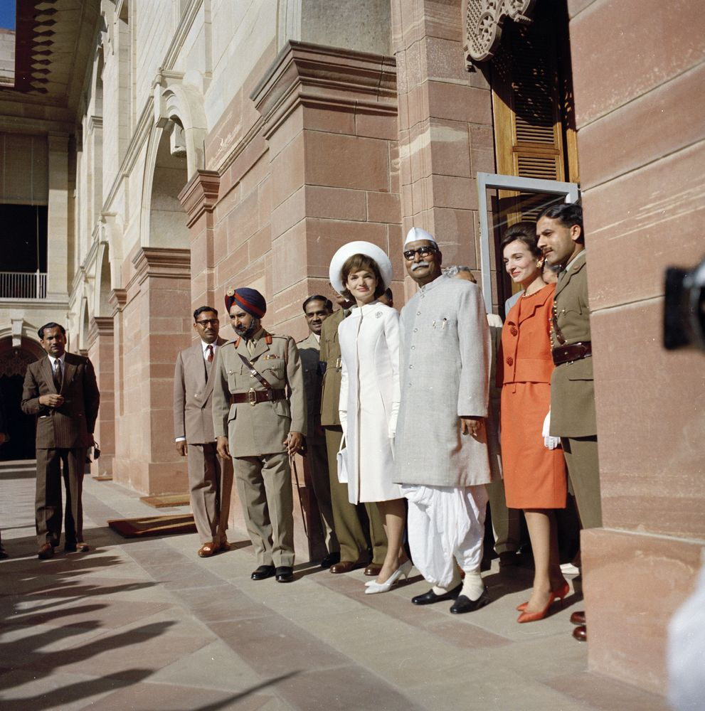 First Lady Jacqueline Kennedy and President of India Dr. Rajendra Prasad (right) stand in the doorway of Rashtrapati Bhavan, the President’s official residence. Mrs. Kennedy’s sister, Princess Lee Radziwill of Poland, stands at right. New Delhi, India.